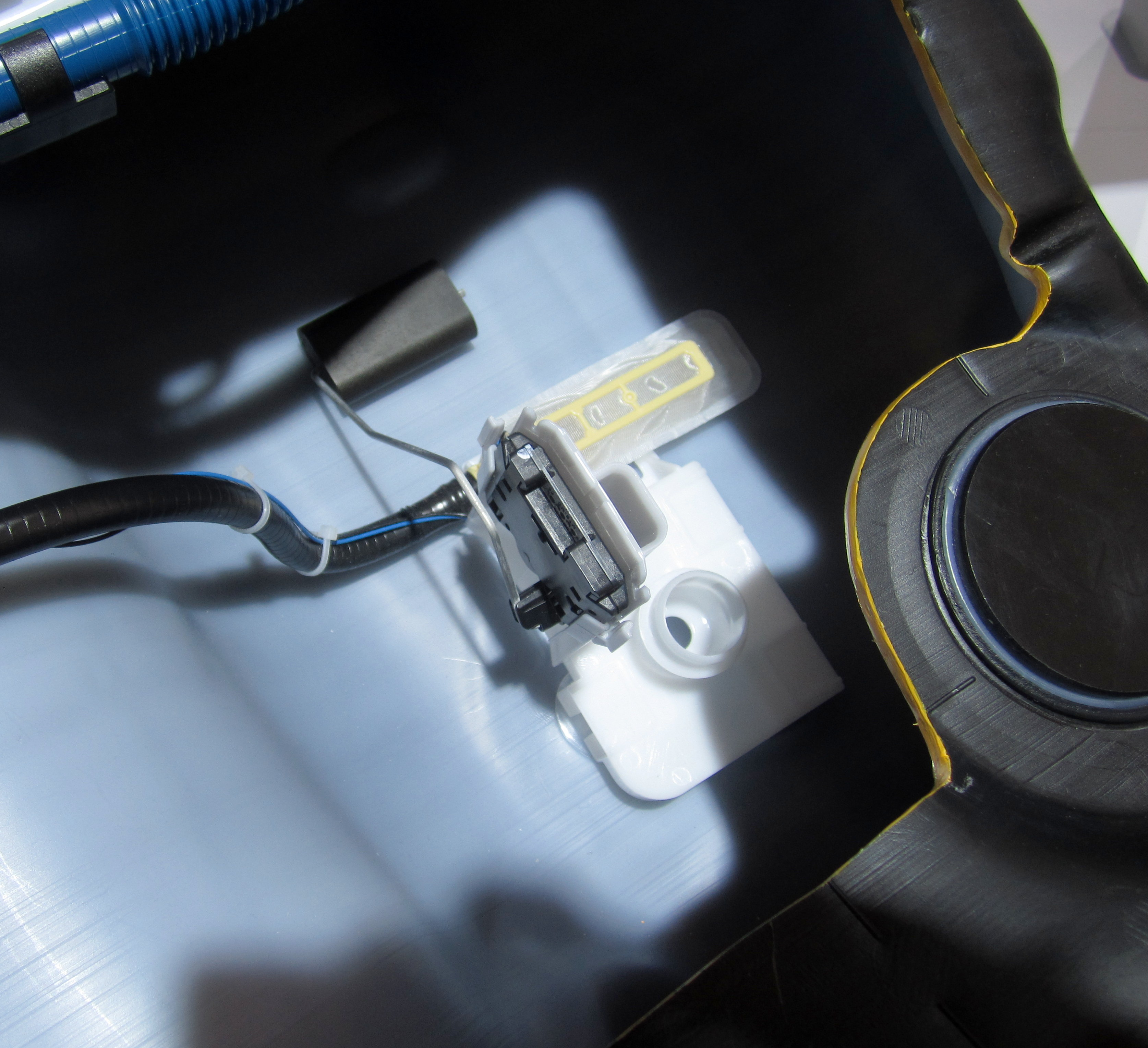 Inside of an automobile Fuel Tank: Level sensor and pump inlet with filter